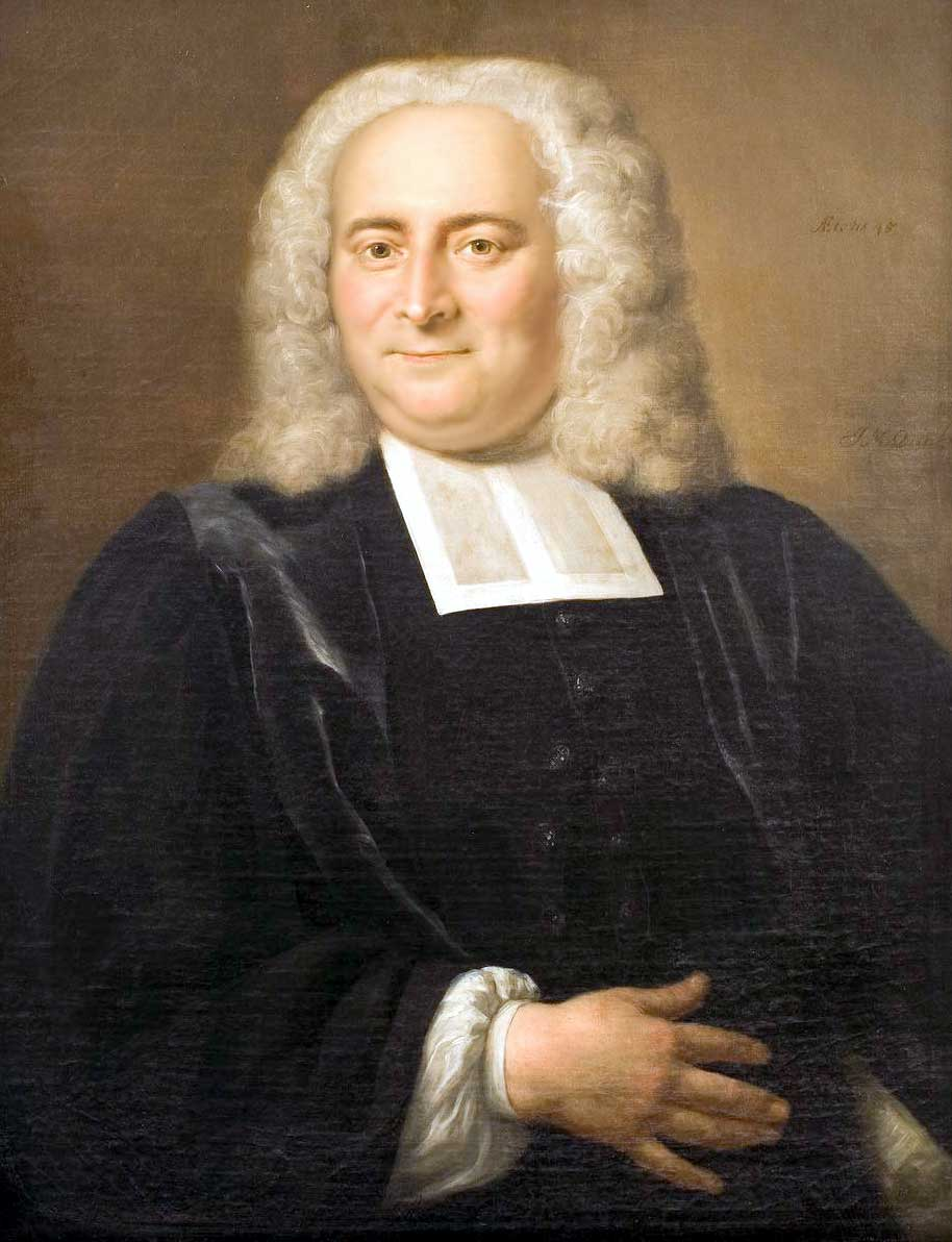 Johann Esgers (1696-1755) Dutch Reformed theologian